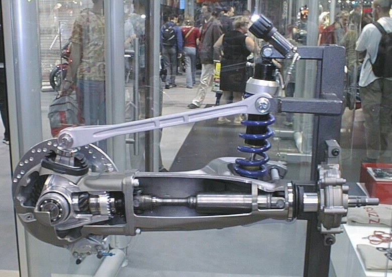 CArdan Reactive Compact or compact reactive drive shaft (CA.R.C. system). Photo taken at the Mondial du deux roues de Paris, 2003.